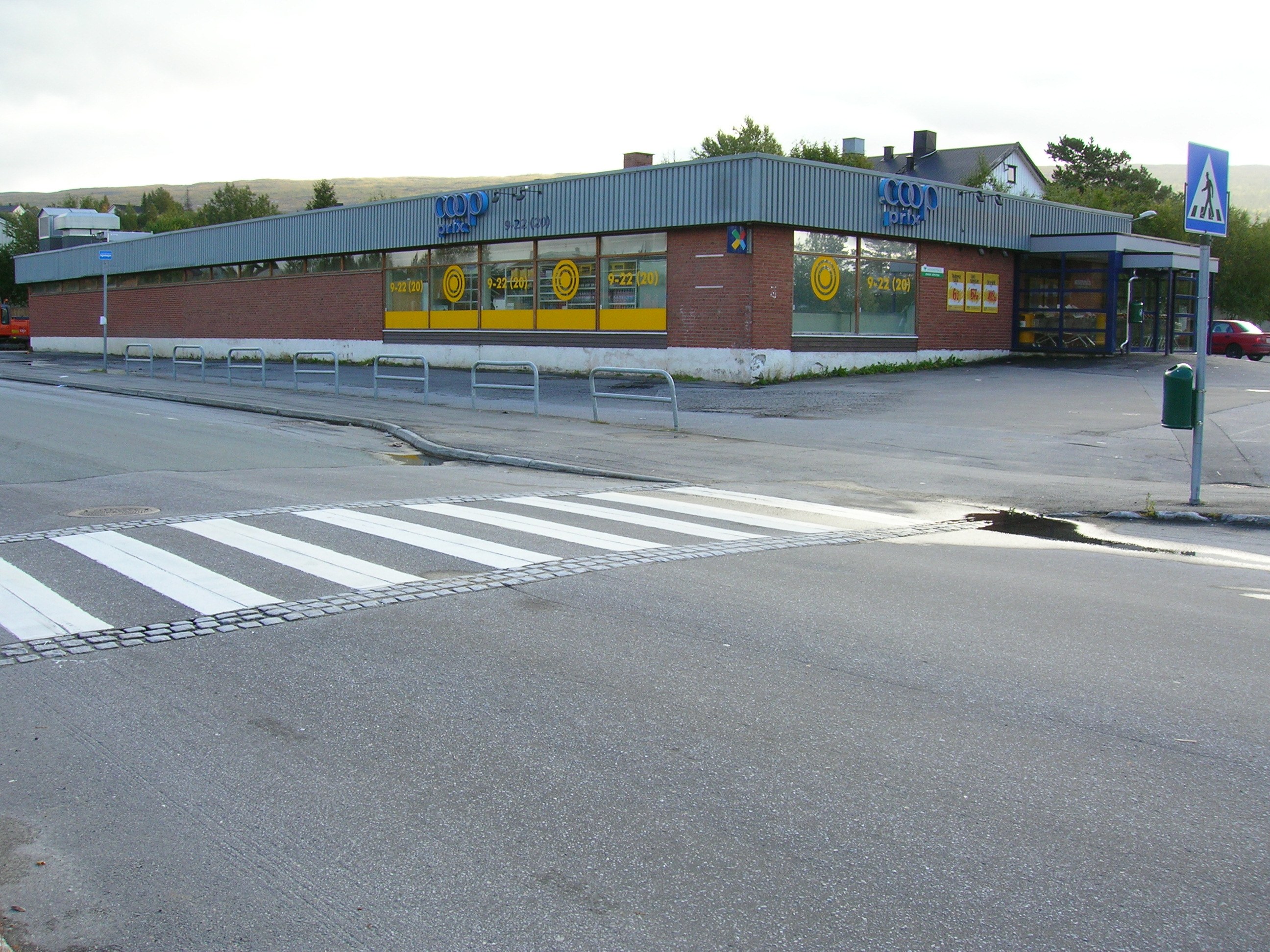 The grocery store «Coop-Prix» on Gruben. Rana municipality, county of Nordland, Norway. Photo 16 September 2007 with a Nikon Coolpix 5600 5,1 Megapixel camera.